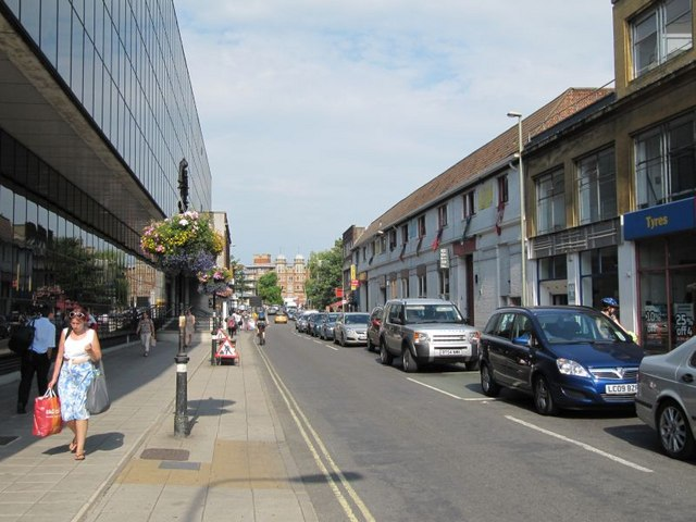 Hythe Bridge Street This used to be one way (flowed away from the camera) before the planners co**ed things up. Now the street is constantly jammed up with traffic.